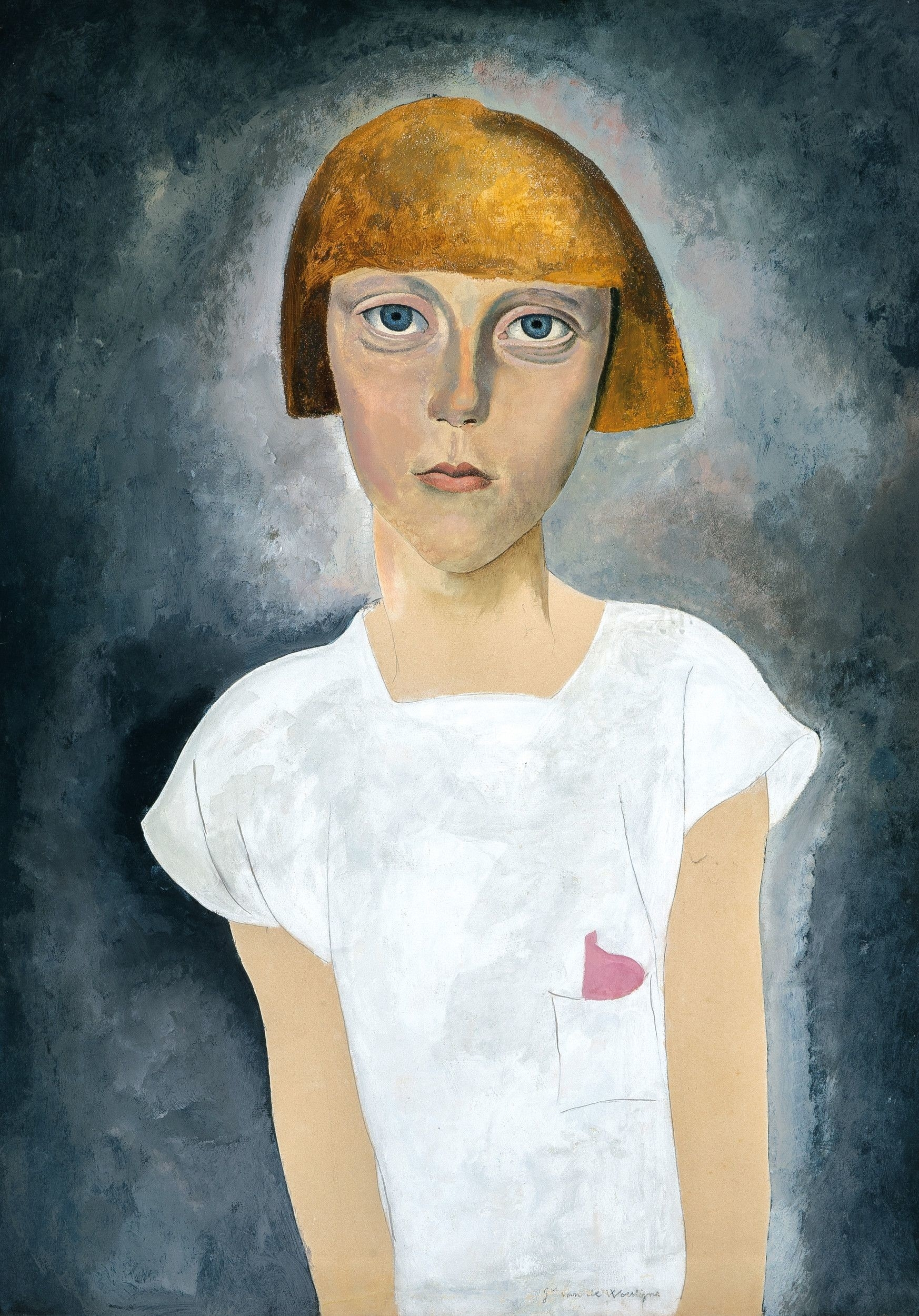 Portrait of Elisabeth Van de Woestyne, twin-daughter of the artist